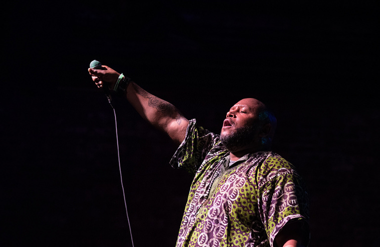 I Self Devine artist performing live in 2010.